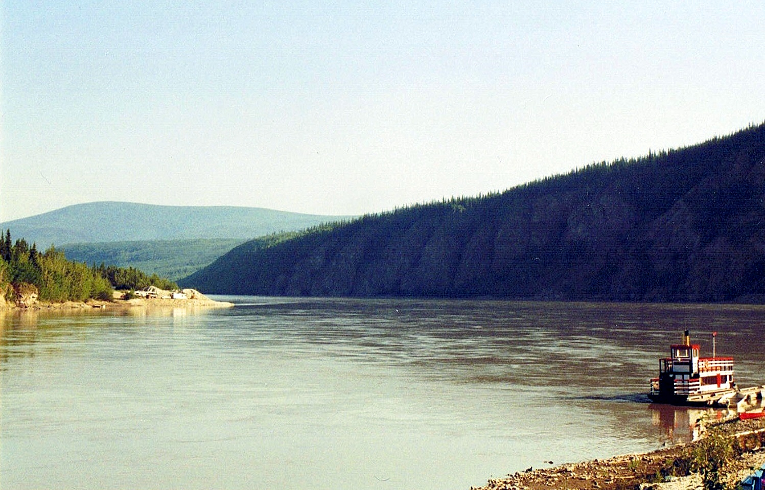 Yukon ferry in Dawson City scanned image